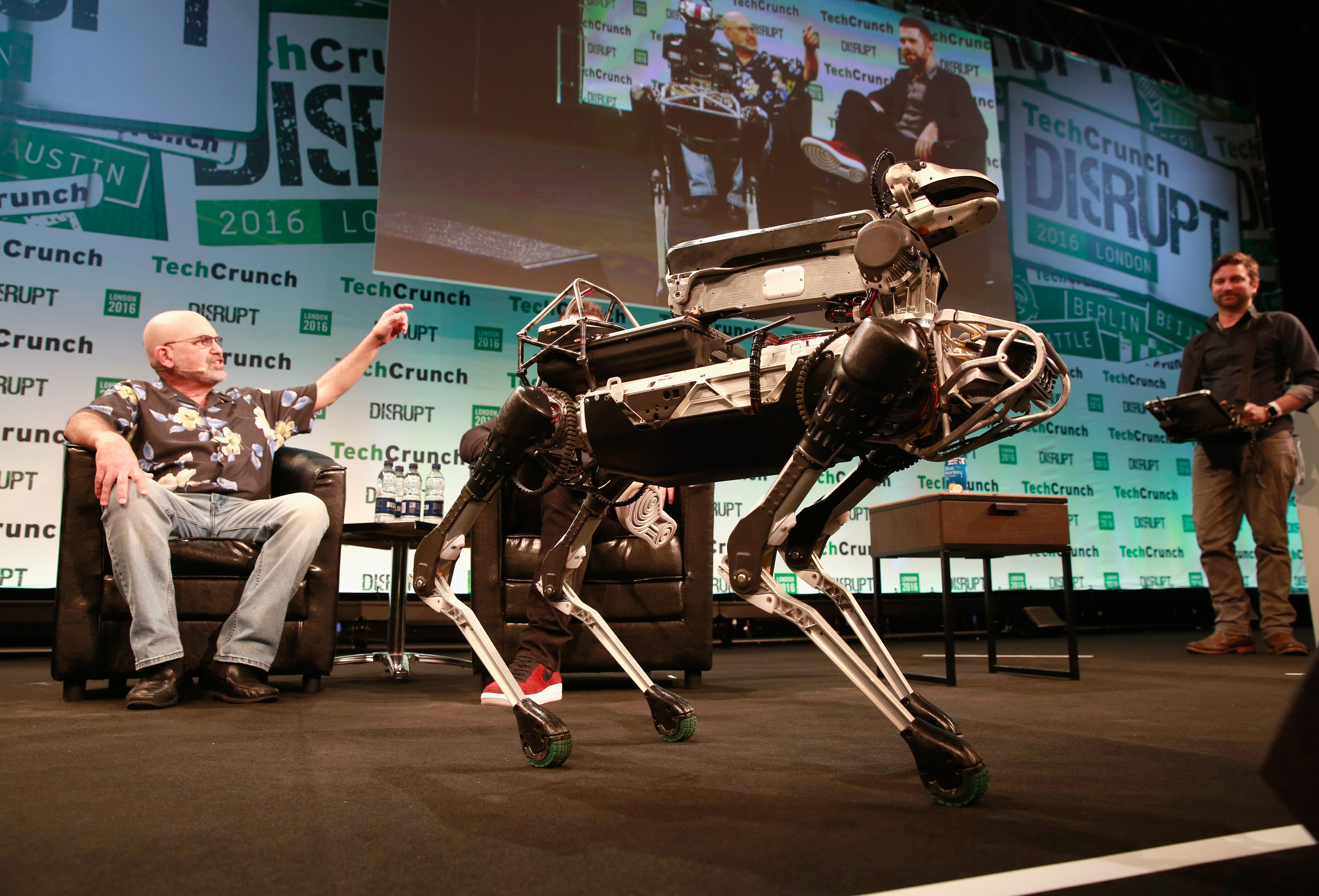 LONDON, ENGLAND - DECEMBER 05: Marc Raibert, Founder of Boston Dynamics, TechCrunch Moderator Darrell Etherington and Boston Dynamics' Spot robot attend a Q&A during day 1 of TechCrunch Disrupt London at the Copper Box on December 5, 2016 in London, England. (Photo by John Phillips/Getty Images for TechCrunch)